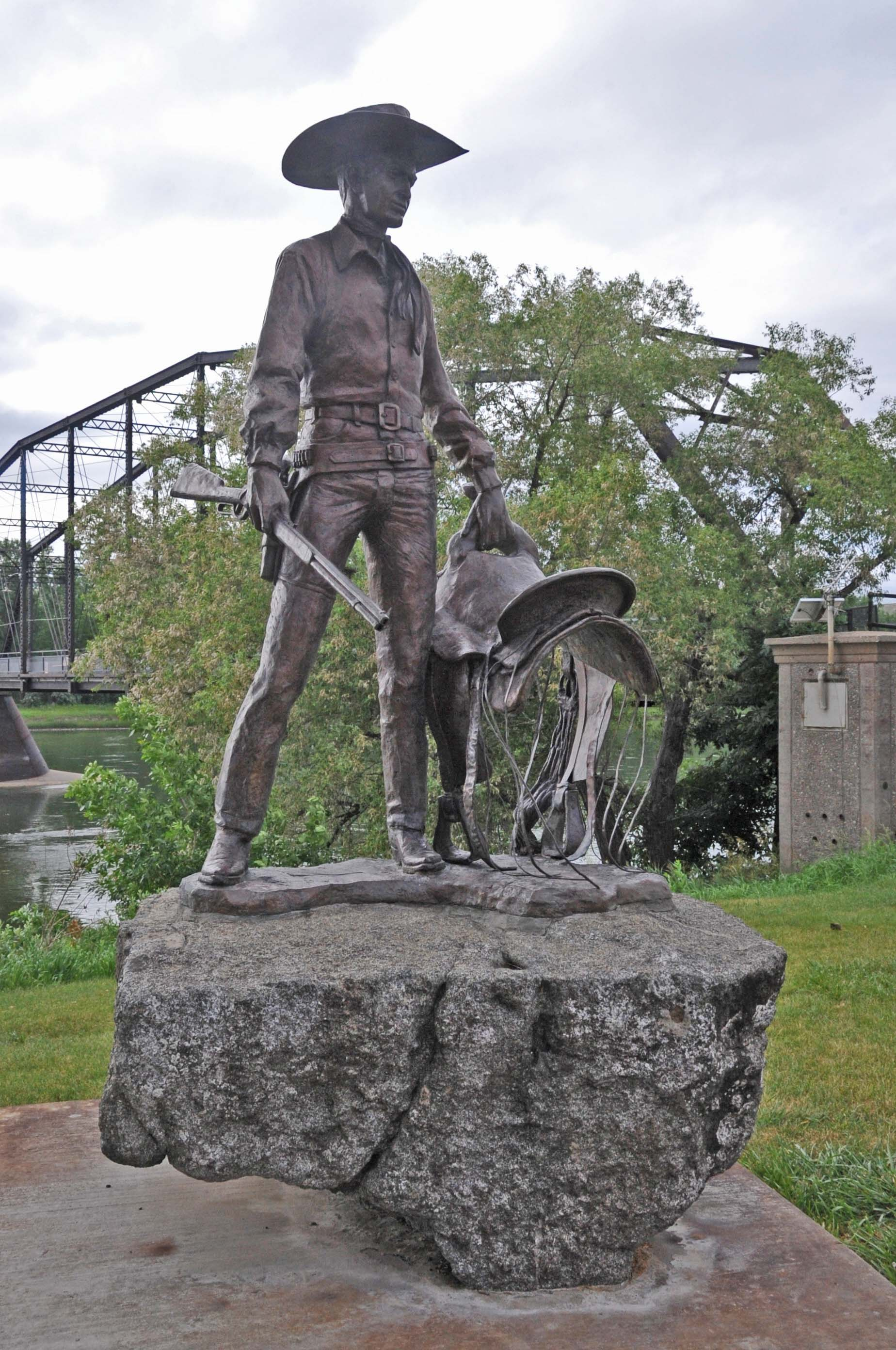 MONUMENT BY GEORGE MONTGOMERY, ARTIST AND ACTOR, AND GARY SCHILDT. MONTGOMERY WAS BORN IN MONTANA IN BRADY. HE CRAFTED STATUES, HOMES, AND FURNITURE IN ADDITION TO APPEARING IN 87 MOVIES